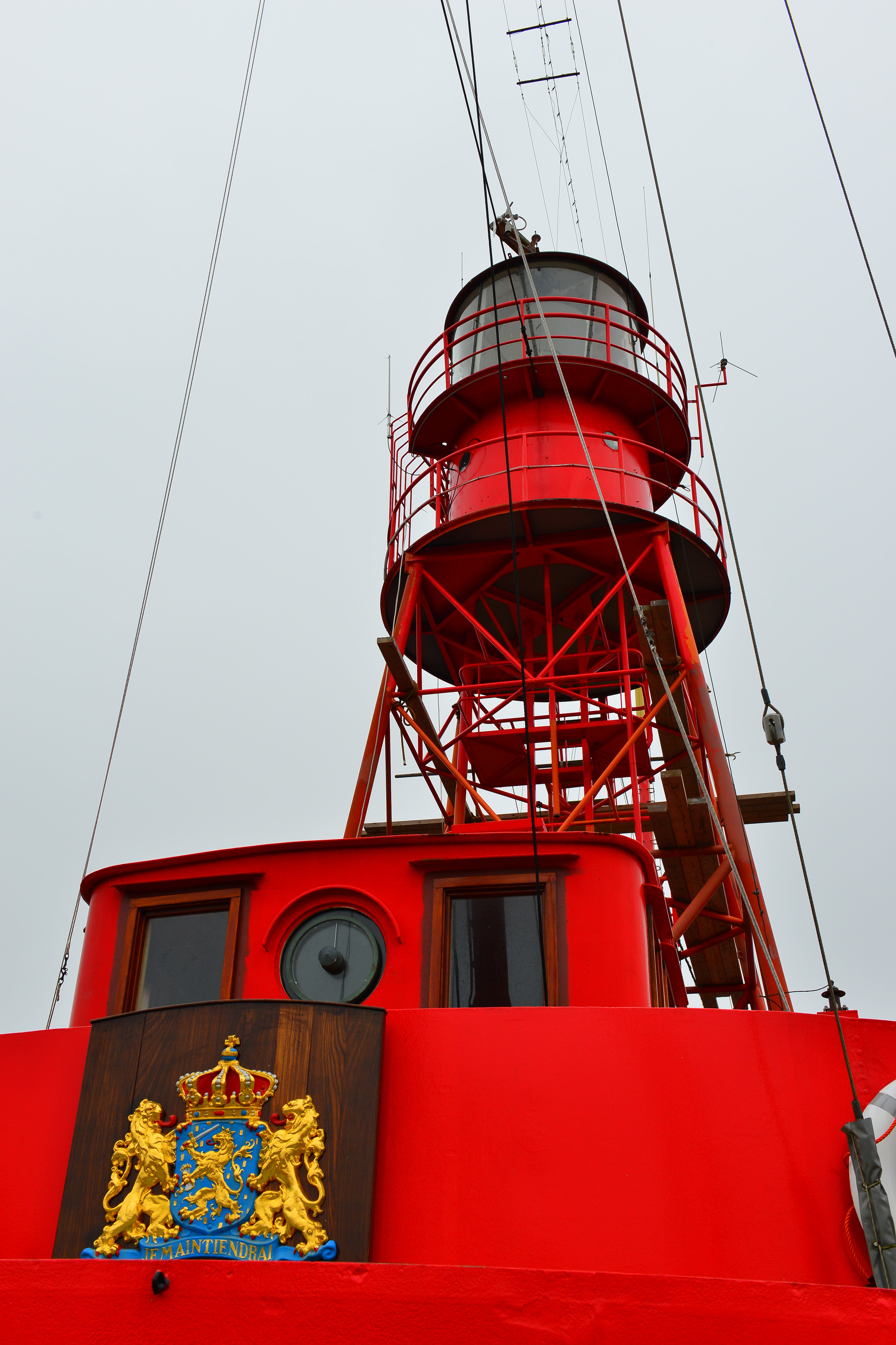 Lightship Texel, the Netherlands, bridge and light tower